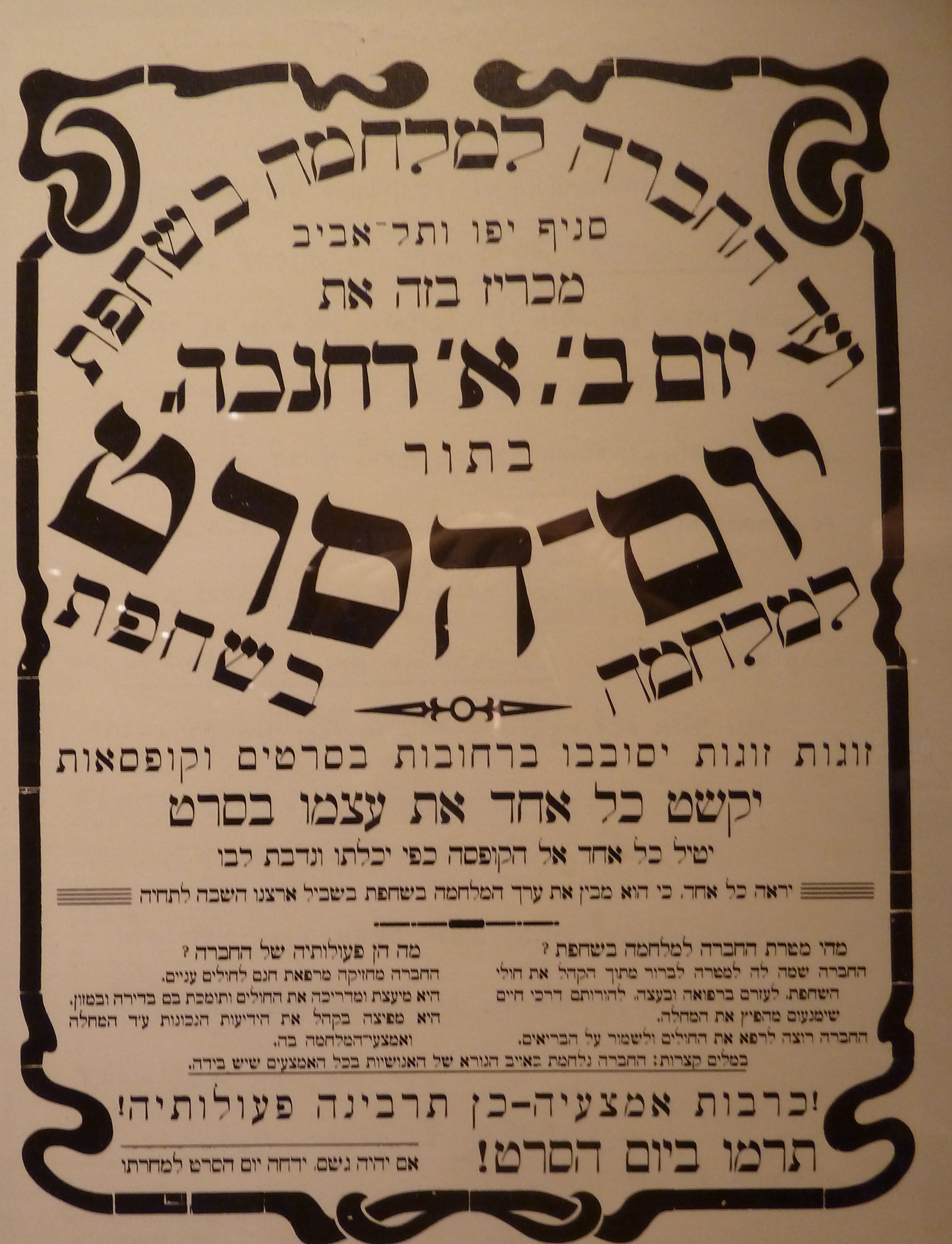 Tel Aviv historical ads from the 1920s and the 1930s. An exhibition at the Shalom Meir Tower